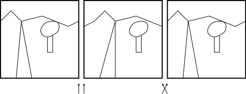 Stereogram for viewing with cross or parallel view methods. The left and the right image is the model for the left eye, the middle for the right eye. This way you can look at the stereogram using cross or parallel views. Dieses Bild wurde von Martin Hawlisch erstellt und unter der GFDL veröffentlicht.